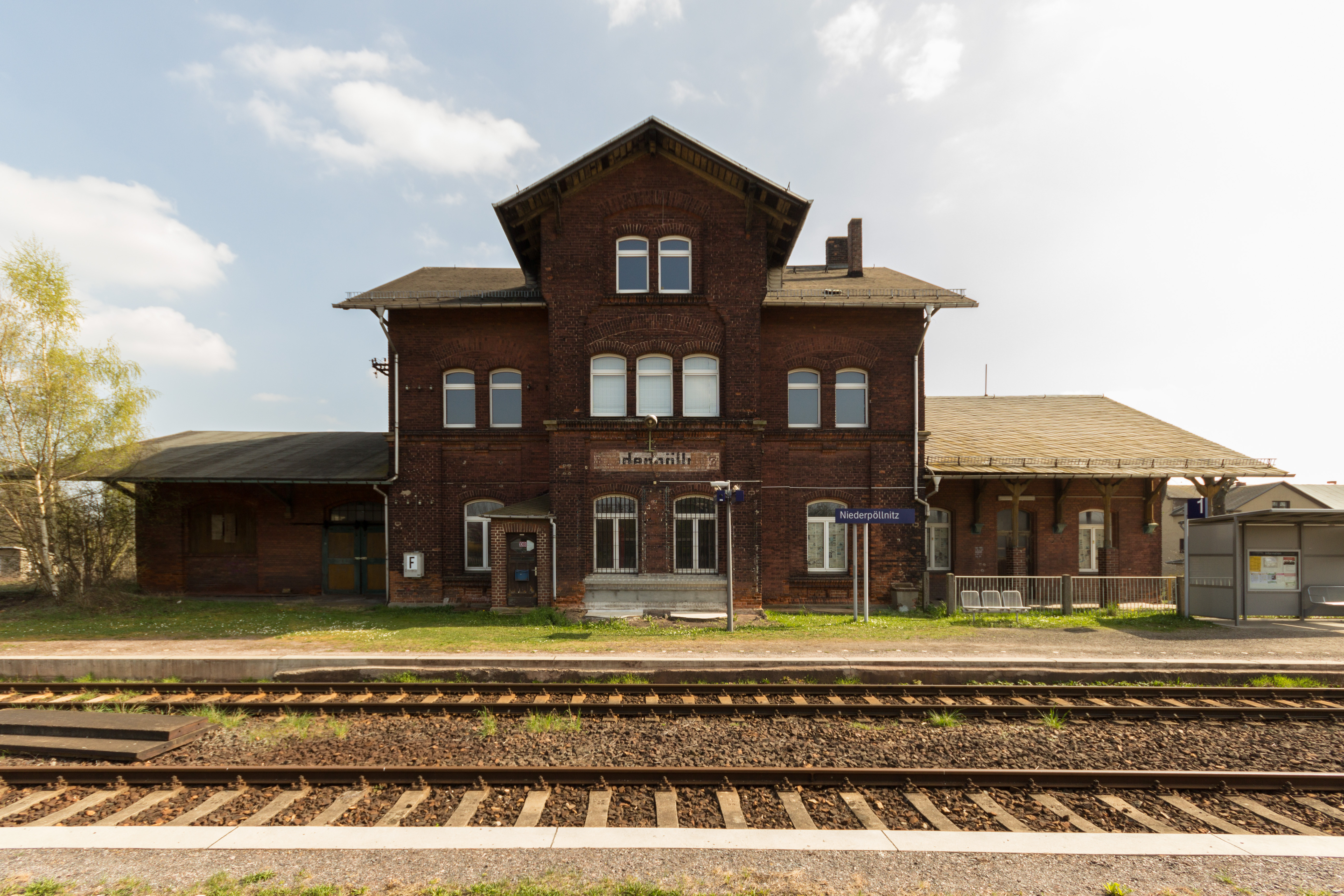 front view of Niederpöllnitz train station